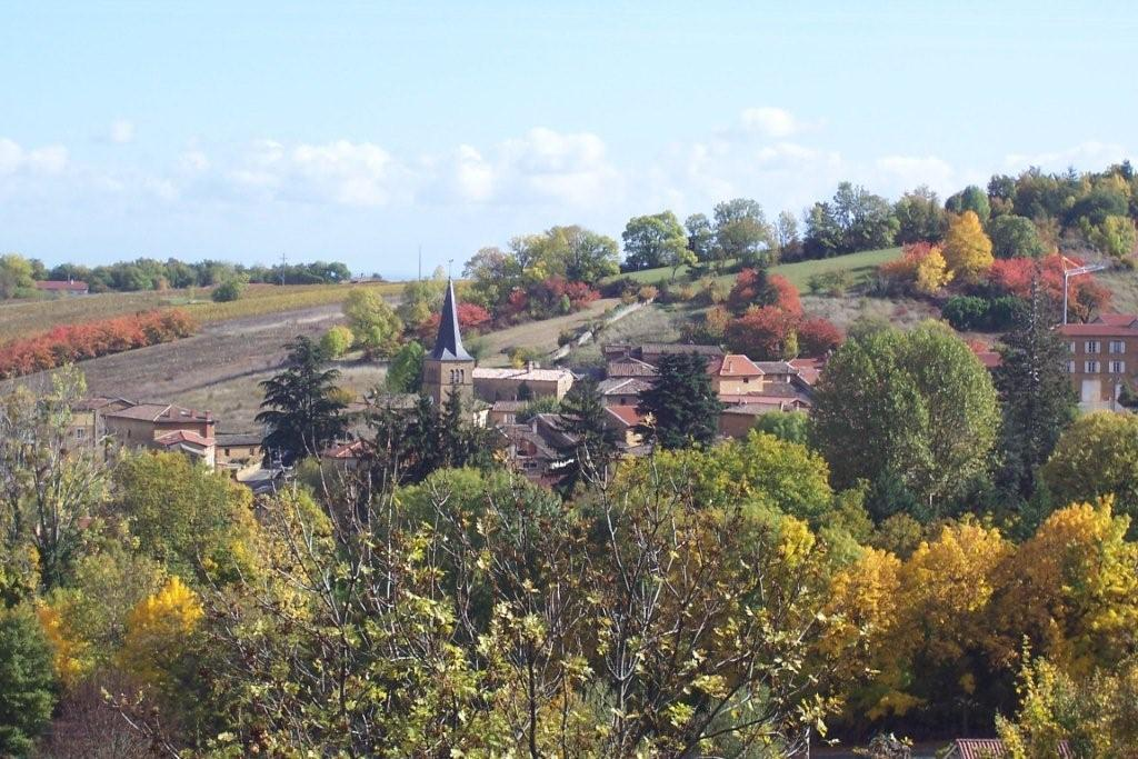 View of the center of the village